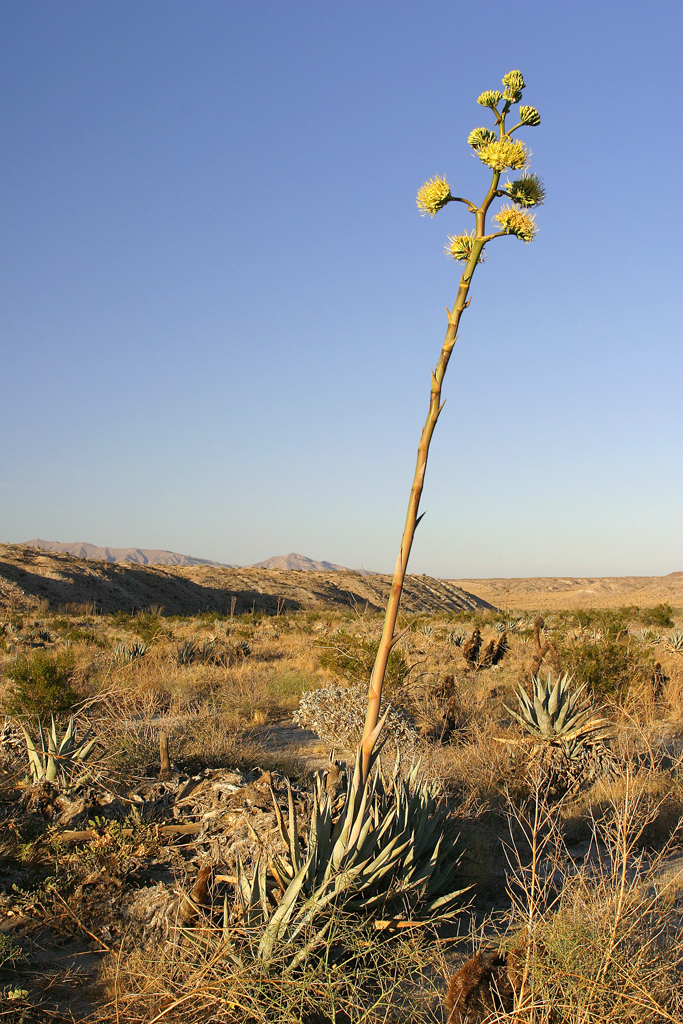 Century plants take many years to flower, although not a century. The Century Plant provided Native Americans with a source of soap, food, fiber, medicine and weapons.